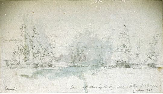 Capture of the Alliance by the Flag Captain the Hon J S Yorke, 22 Aug 1795; graphite & wash. Dutch frigate Alliantie (1788), the Royal Navy captured her in 1795 and the British Royal Navy took her into service as HMS Alliance.